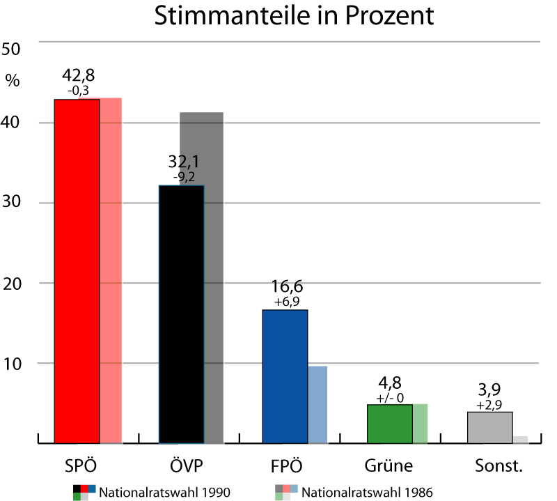 Results of the Austrian legislative Election 1990 in percentages compared with the election 1986